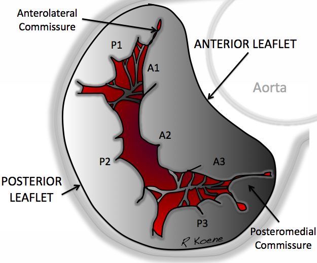 A digaram showing a Mitral valve.